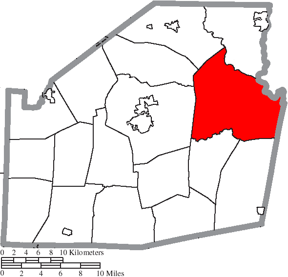 Map of the municipal and township boundaries of Highland County, Ohio, United States, as of the 2000 census, with the location of Paint Township highlighted. Township borders are shown only in unincorporated areas in order to differentiate incorporated and unincorporated areas more clearly.